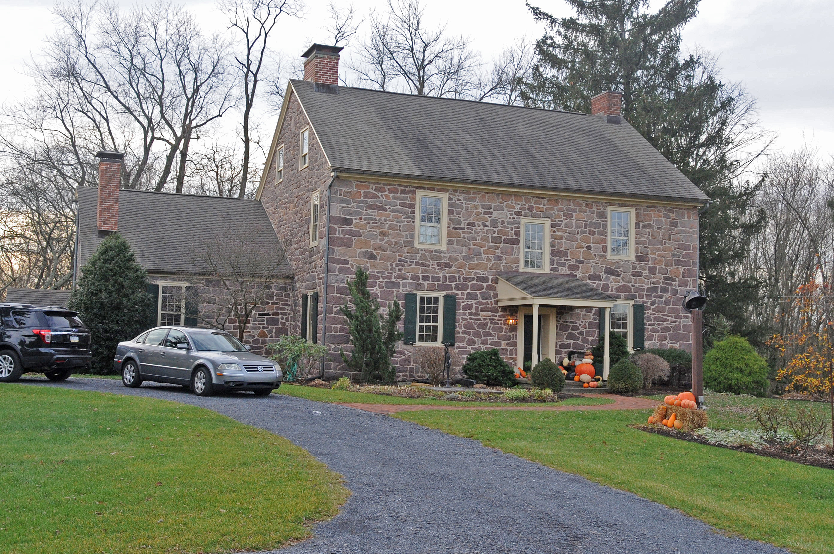 FARM DATES TO CIRCA 1760 BUT THE HOUSE WAS BUILT IN 1806 IN FEDERAL STYLE AND THE BARN WAS BUILT IN 1847.